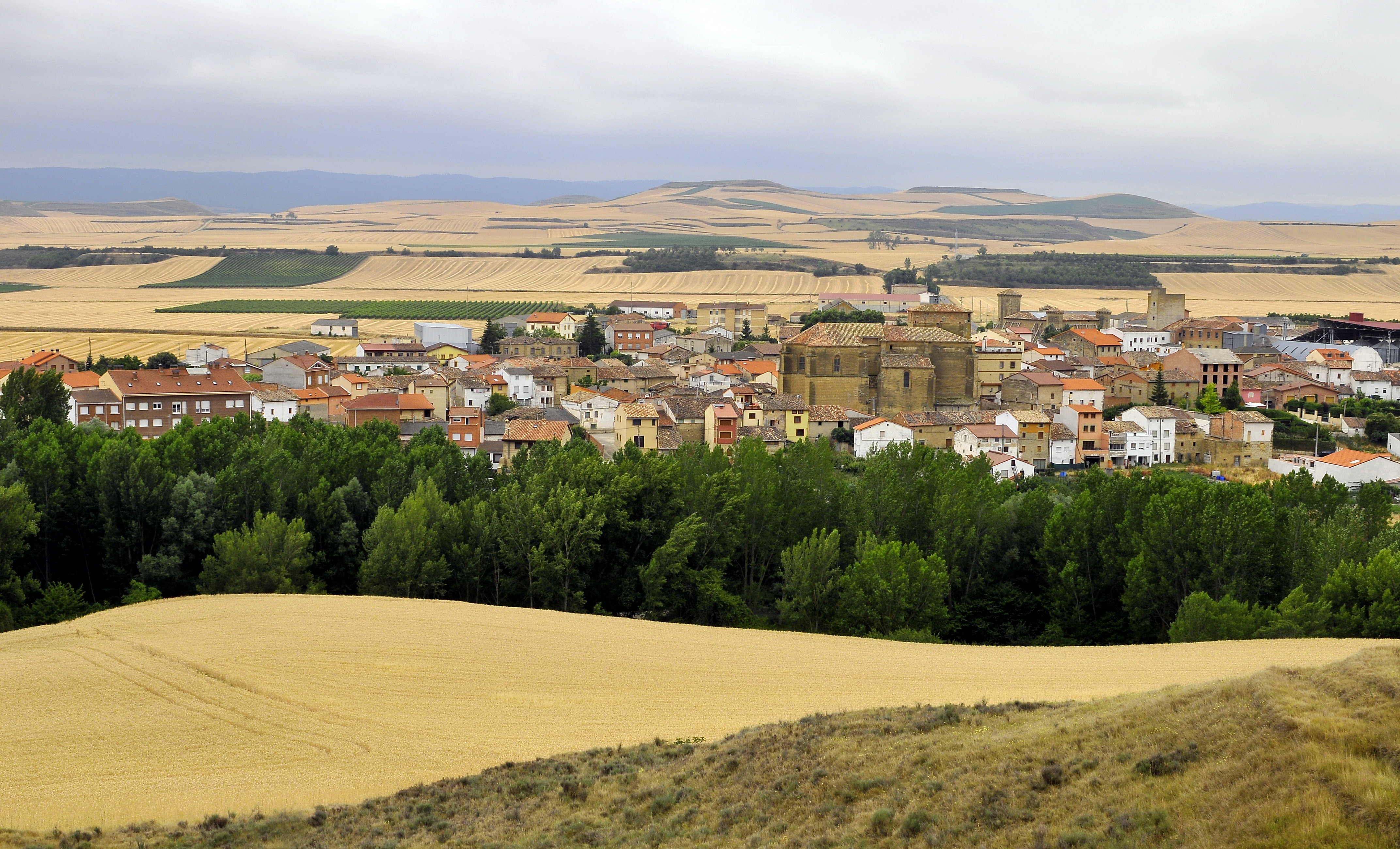 The village and its surroundings. Leiva, La Rioja, Spain